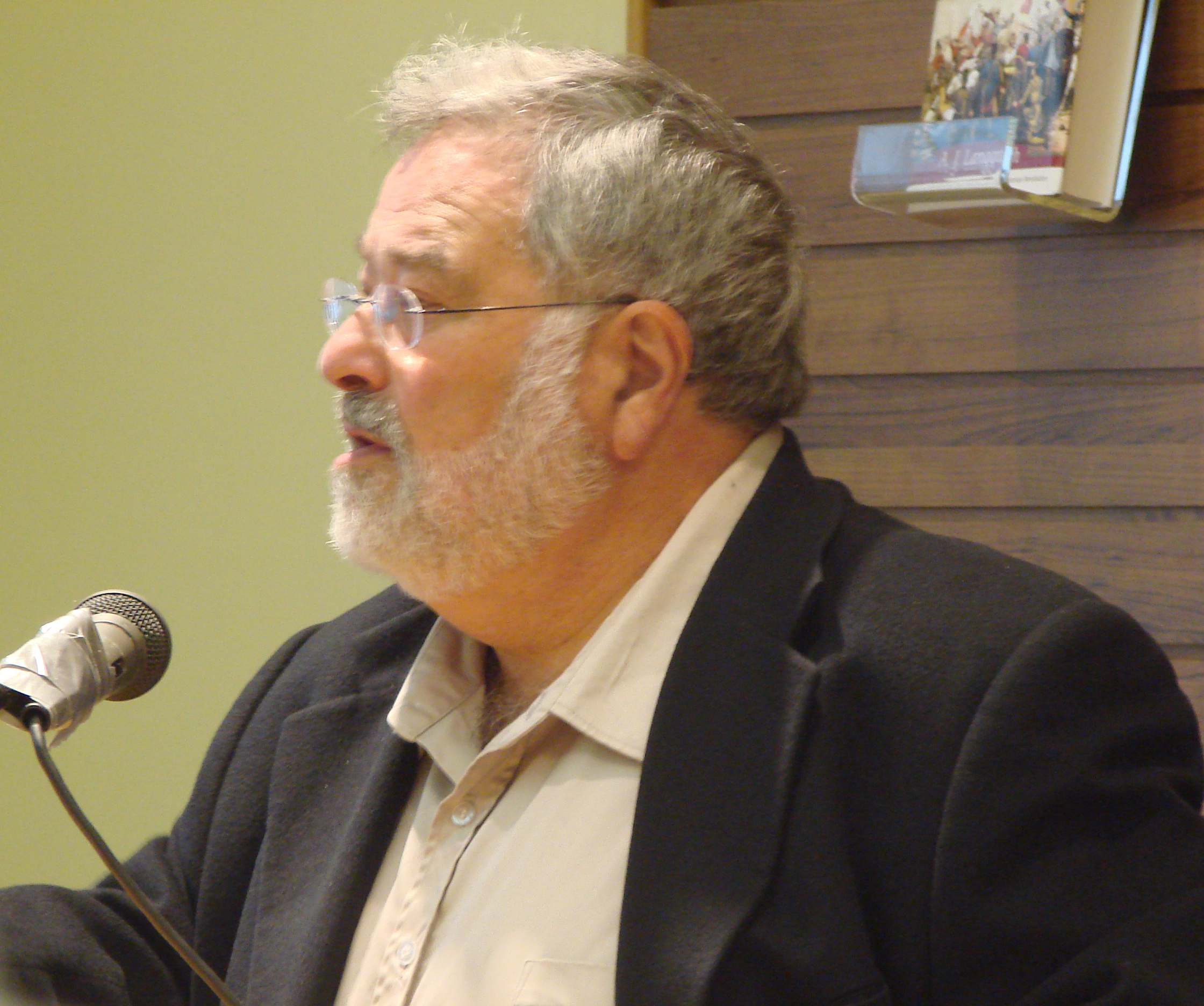 Author/linguist/professor George Lakoff ("Don't Think of an Elephant") makes a lunchtime appearance at Stacey's Books on Market Street to promote his latest project, "Thinking Points: Communicating Our American Values and Vision."